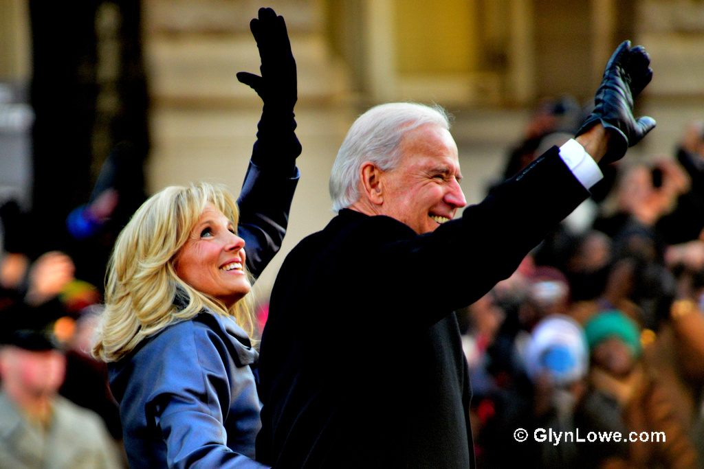 U.S. President Barack Obama Joe Biden - Jill Biden The 2013 Presidential Inauguration will be held in Washington DC on Monday, January 21, 2013. By law, the President must take his Oath of Office on January 20th before noon. Since the 20th falls on a Sunday, there will be a private ceremony on that date and the public ceremony will be held the following day. A week of festivities will include the Presidential Swearing in Ceremony, Inaugural Address, Inaugural Parade and a night of Inaugural Balls and galas honoring the elected President of the United States. More Photos At